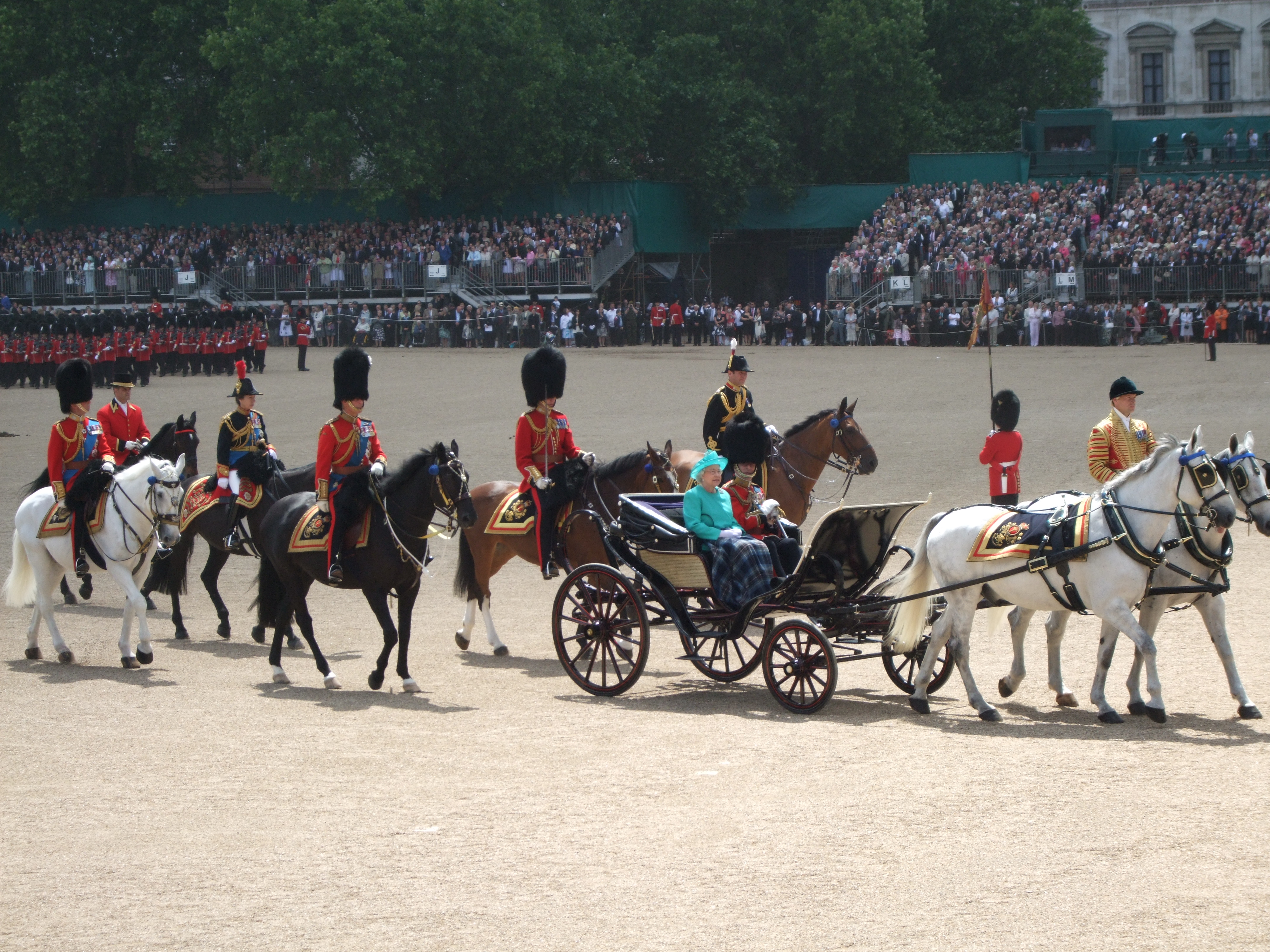 Queen departs Trooping the Colour